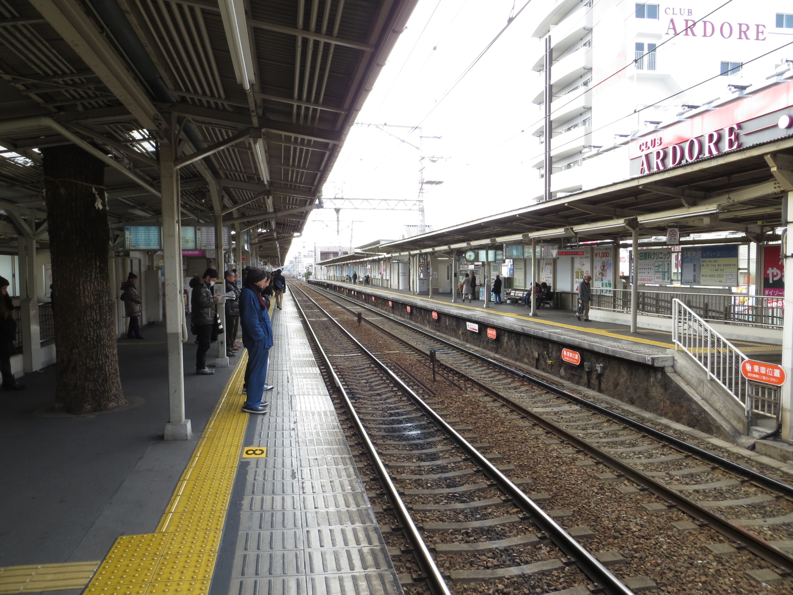 Platform from Hattori-tenjin Station (HK43), Hankyu Takarazuka Main Line.